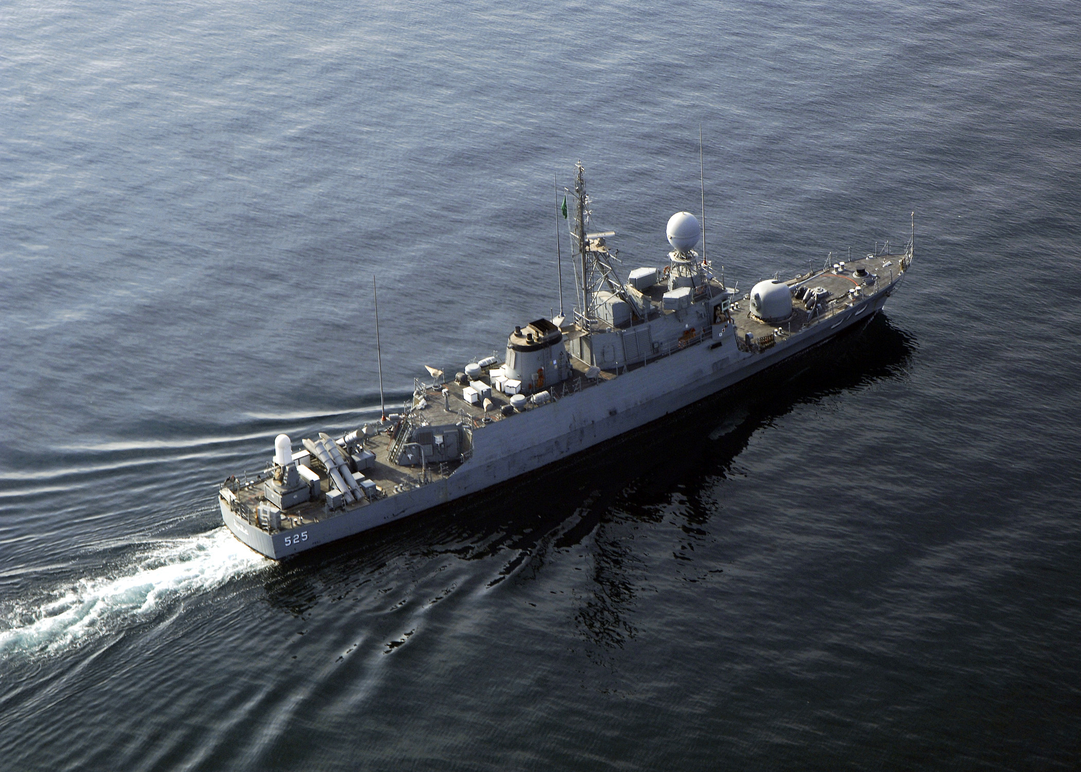 081025-N-5681S-164 PERSIAN GULF (Oct. 25, 2008) As-Sadiq class missile boat Oqbah (525) of the Royal Saudi Navy participates in a photo exercise with ships from the Iwo Jima Expeditionary Strike Group (ESG) during a bilateral exercise in the Persian Gulf.